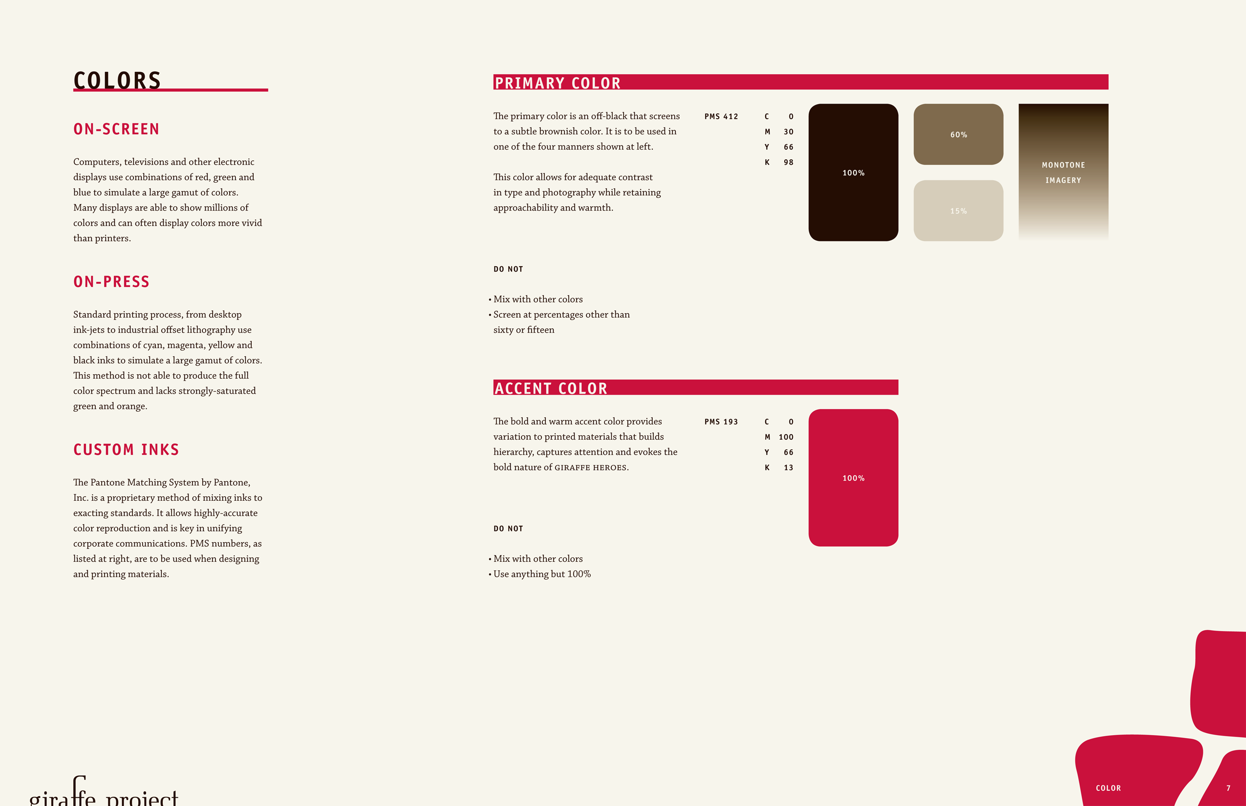 One page from an "Identity Standards Manual"—so named for the field of graphic design that focuses on corporate identity design and branding.